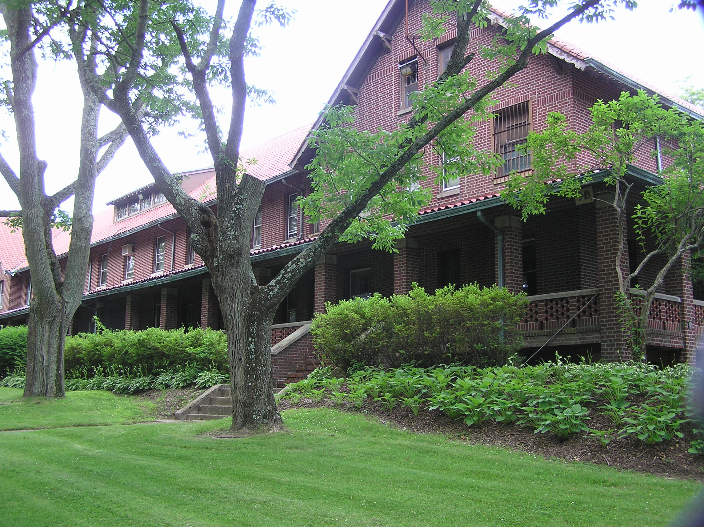 Camp Evans Historic District What was the Hotel at the Marconi Wireless Station, in what is now the Camp Evans Historic District in Wall Township, Monmouth County, New Jersey. For more history on Camp Evans